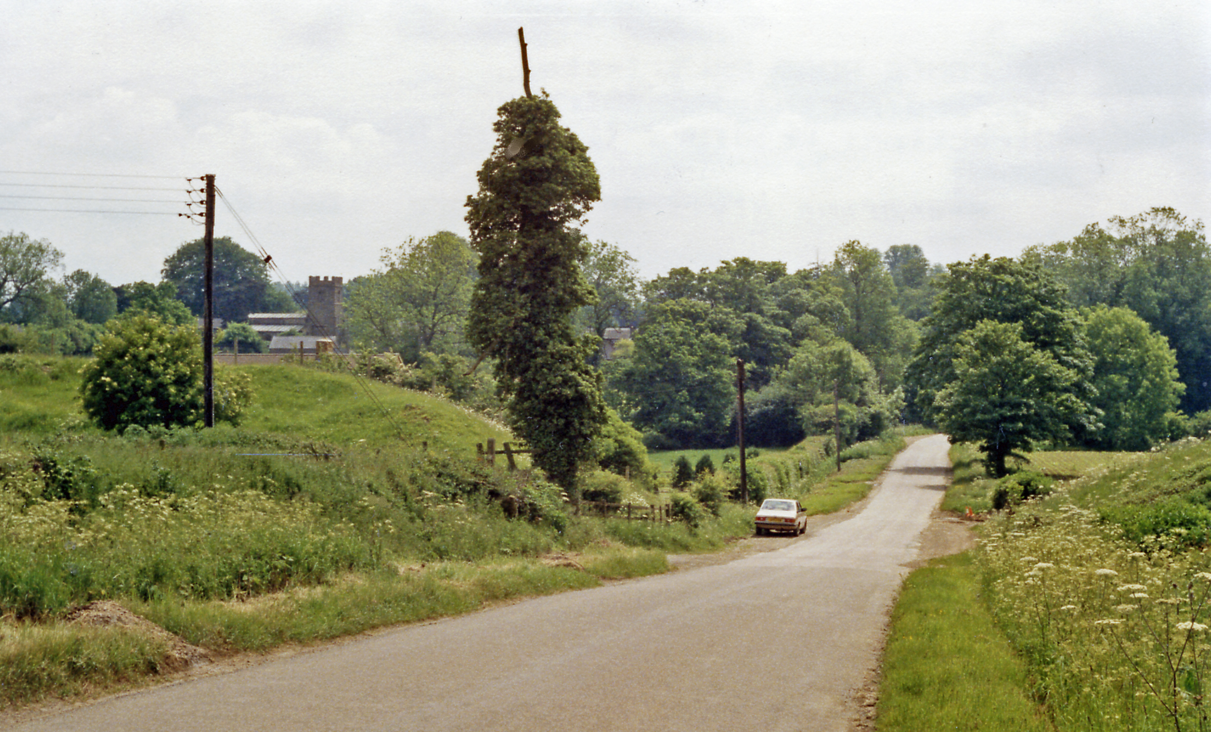 Site of Chalcombe Road Halt, 1988. View southward on the minor road from the A361 to CHACOMBE - but 'Chalcombe' according to the Railway. The important ex-GC Woodford Halse - Banbury line, linking the GC 'London Extension' from Leicester, Nottingham and Sheffield etc. with the GWR system at Banbury, crossed here: Banbury was to the right and the Halt had been on the left. The Halt was closed from 6/2/56 and the line abandoned, along with the main line, from 6/9/66.